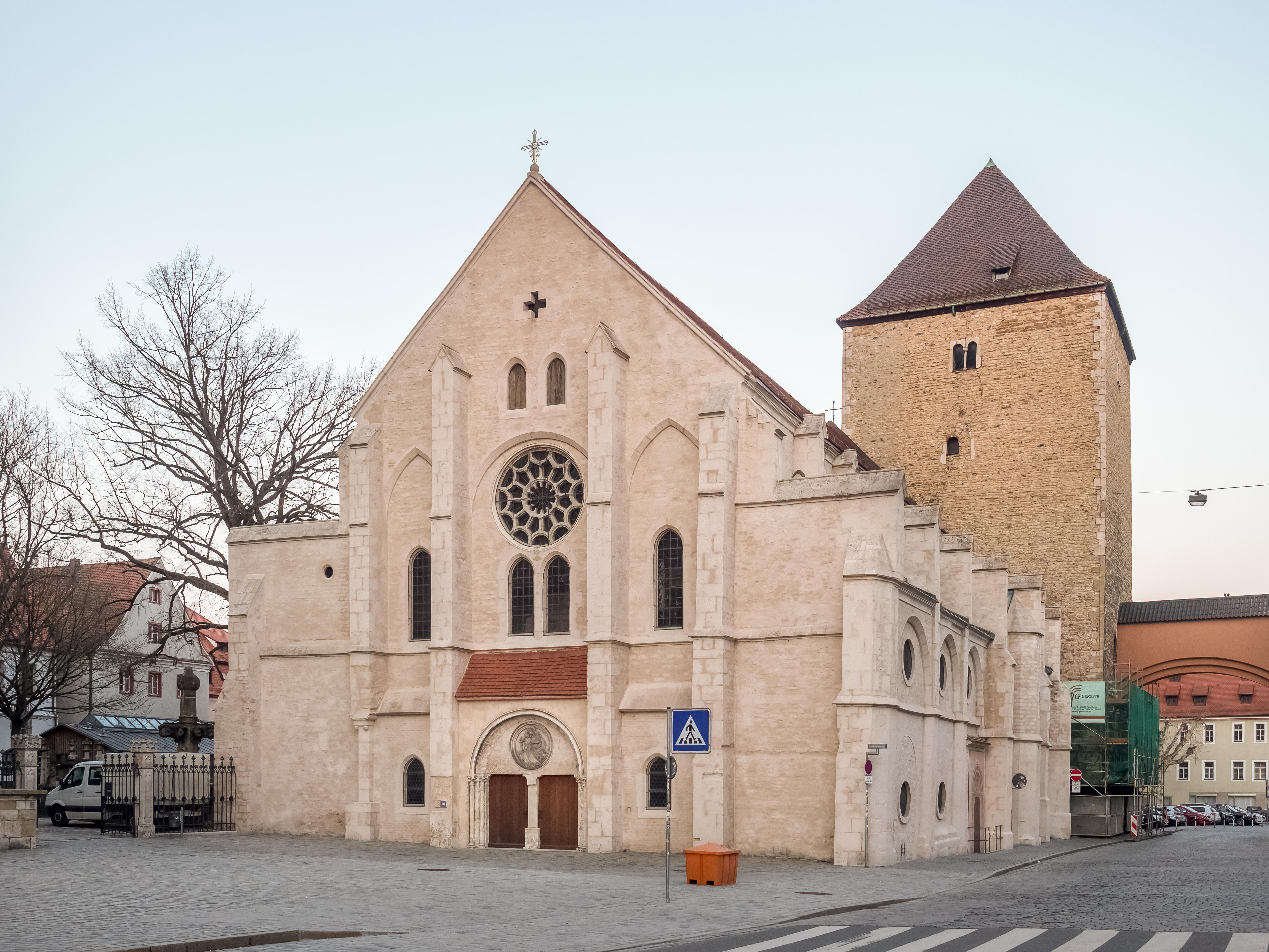 Church of Ortisei in Regensburg